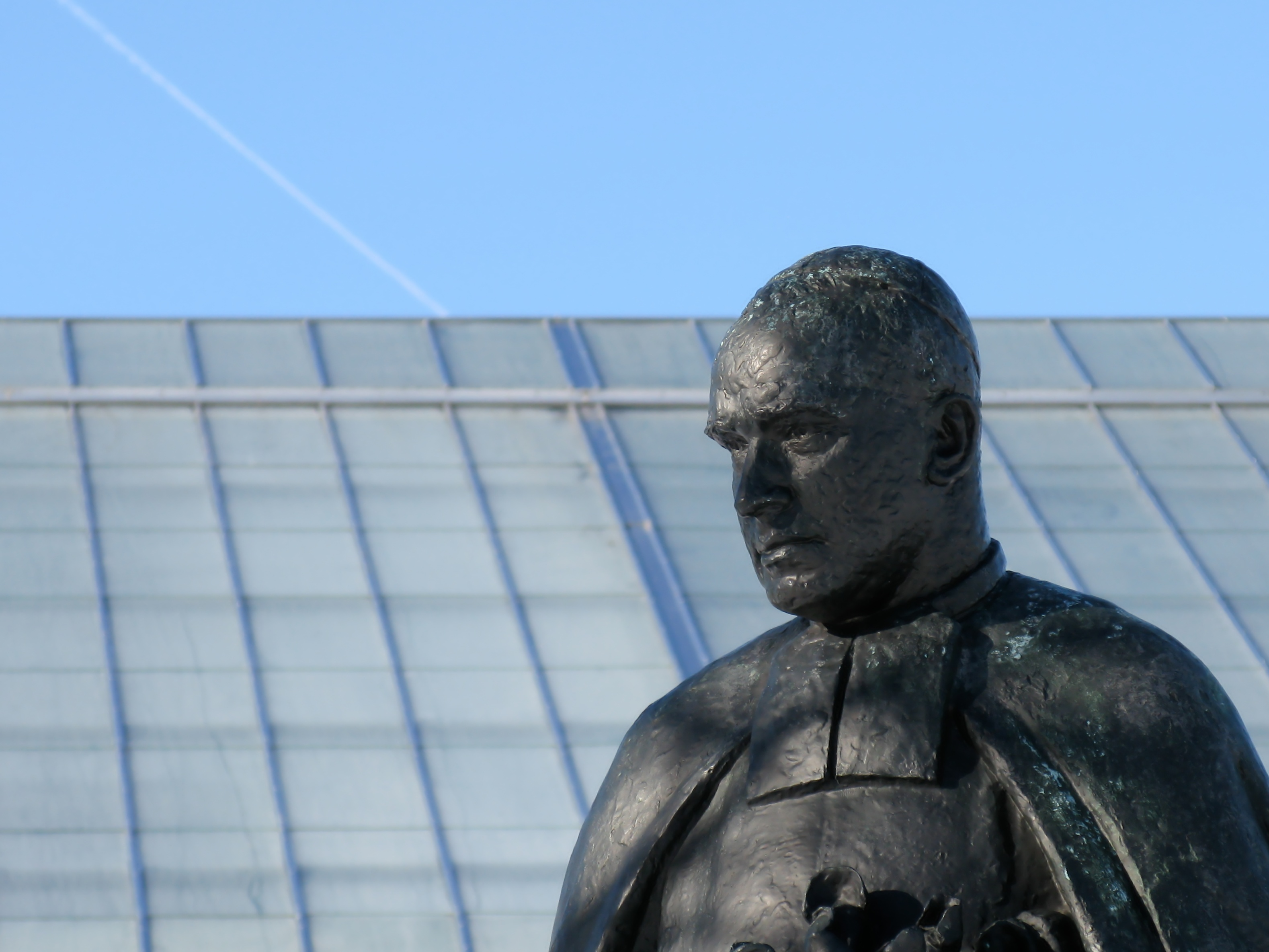 A detail of the statue of Brother Marie-Victorin at the Montreal Botanical Garden. The top of the Garden's greenhouse is in the background and an airplane's contrail is visible in the sky.